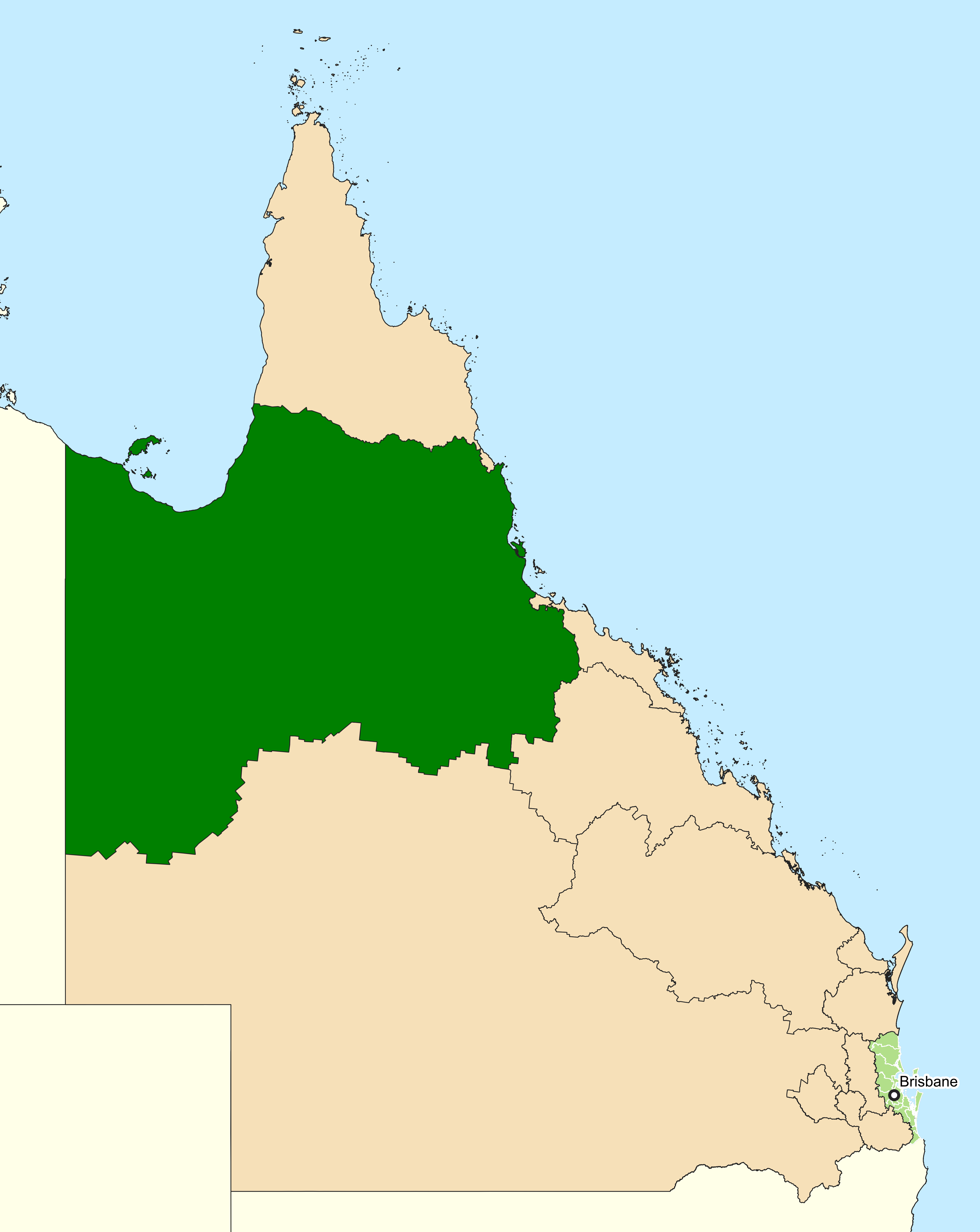 Location of the Australian federal electoral division of Kennedy (dark green) in Queensland as of the 2019 Australian federal election. Incorporates or developed using Administrative Boundaries ©PSMA Australia Limited licensed by the Commonwealth of Australia under Creative Commons Attribution 4.0 International licence (CC BY 4.0).